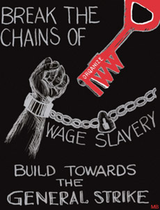 IWW poster about wage slavery. It reads: break the chains of wage slavery, build towards the general strike.